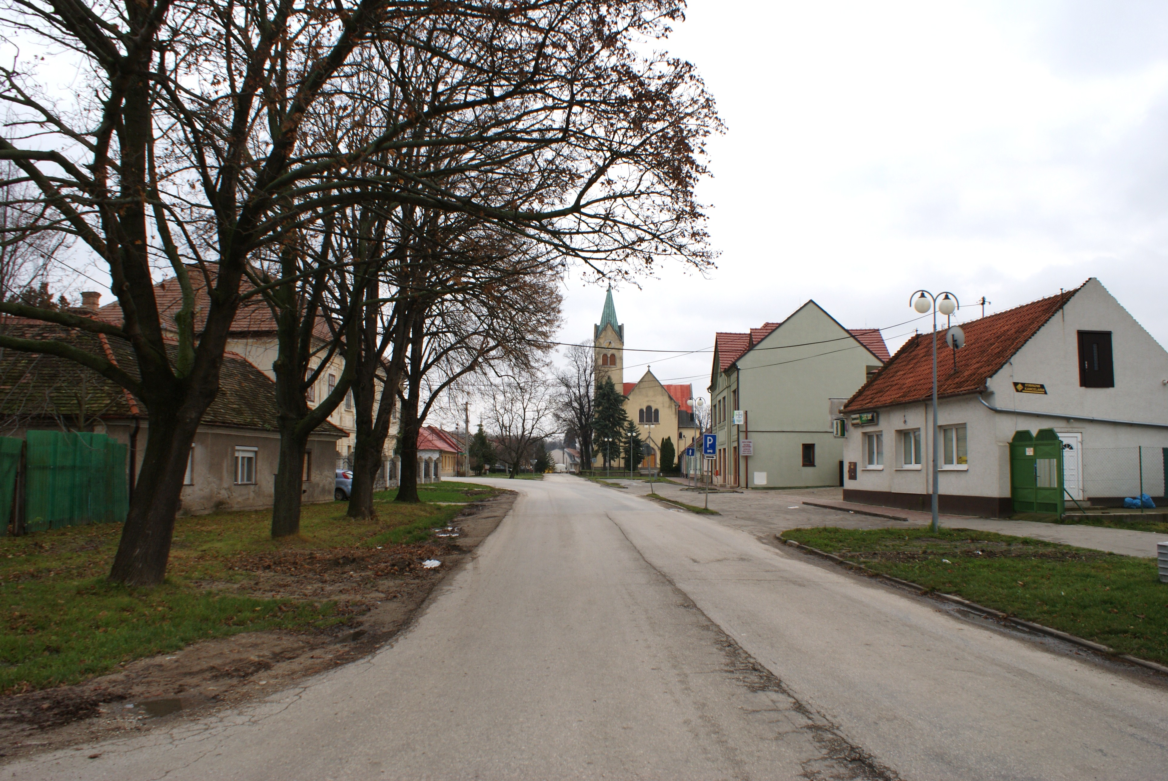 Cífer, a village in Trnava district, Slovakia, view from the common to the church.